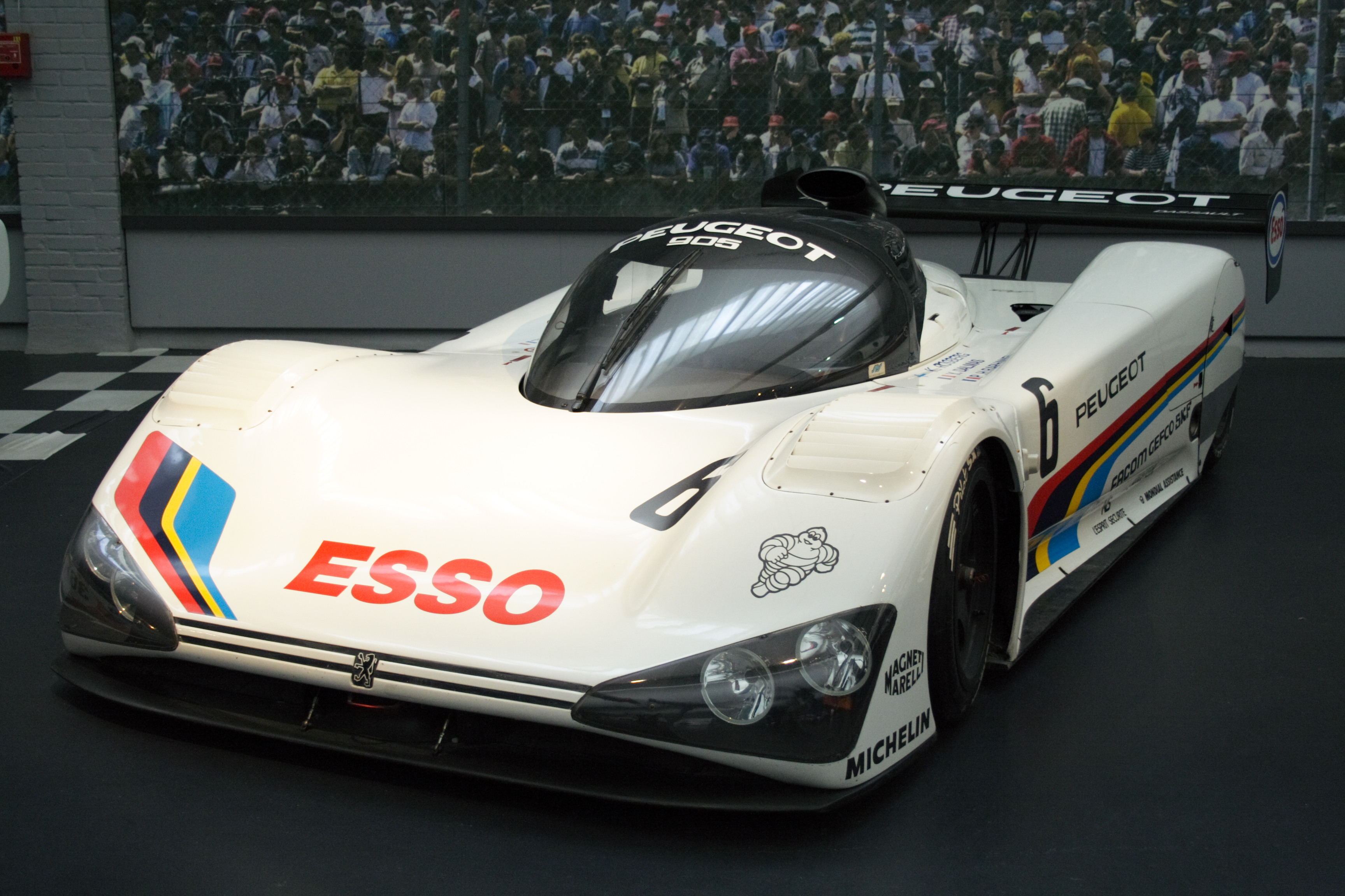 Peugeot 905 1990 at the Musée National de l'Automobile (Mulhouse, France)This car is the N°6 that was driven by Rosberg/Dalmas/Raphanel at the 1991 24 Hours of Le Mans (withdrawal at the 68th lap)